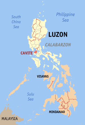 Map of the Philippines showing the location of Cavite